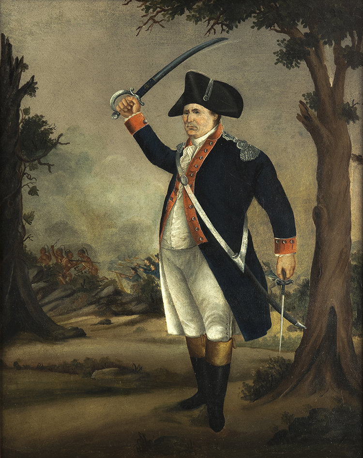 General William Darke (1736-1801) Artist/Maker:Kemmelmeyer, Frederick Place Made:Baltimore Maryland United States of America Date Made:1790-1800 Medium:oil on paper Dimensions:HOA: 25; WOA: 20 Accession Number:973.3